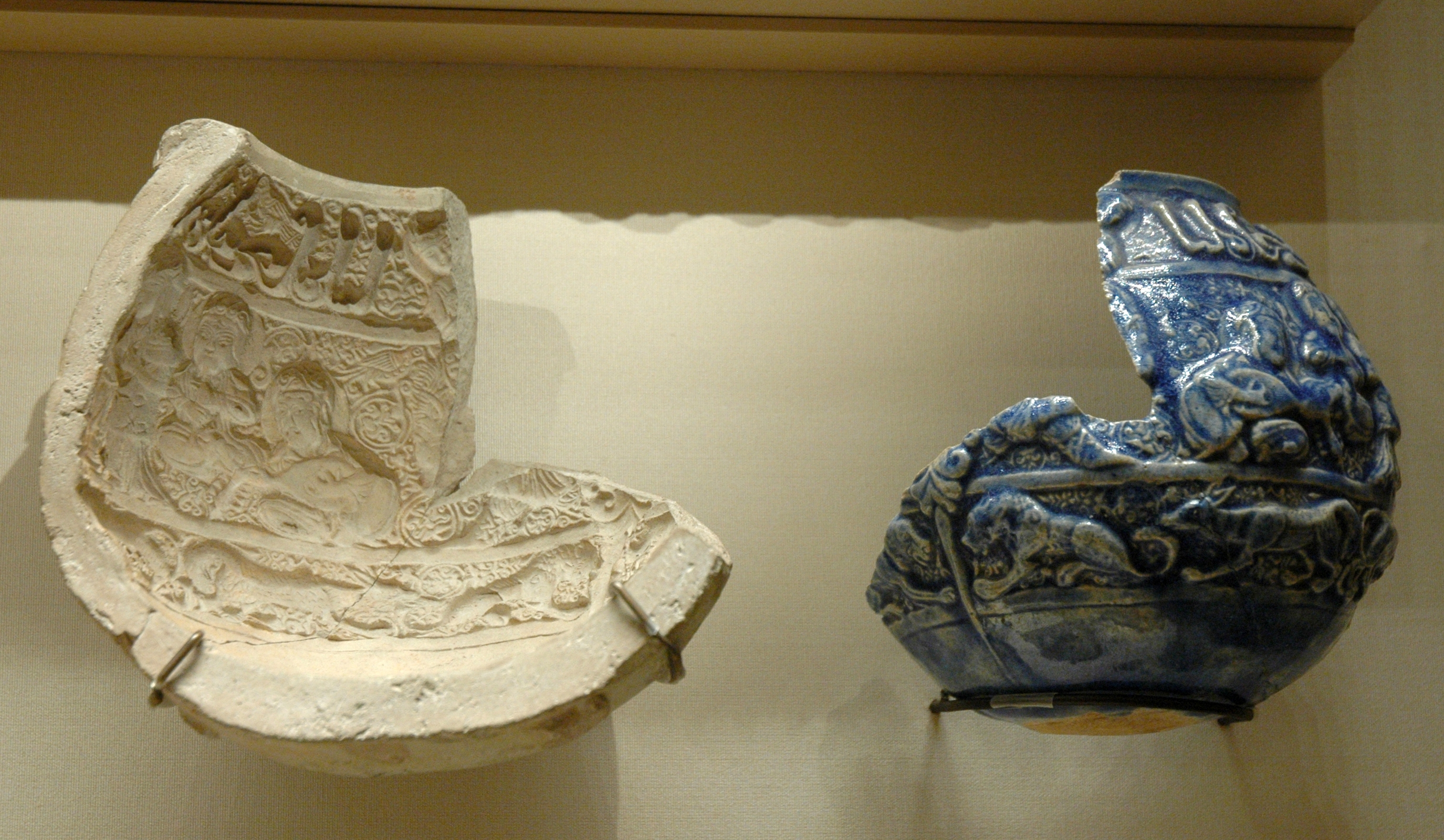 Fragments of mold and cast. Terracotta with cut and champlevé decoration, 12th-early 13th century, Nishapur.